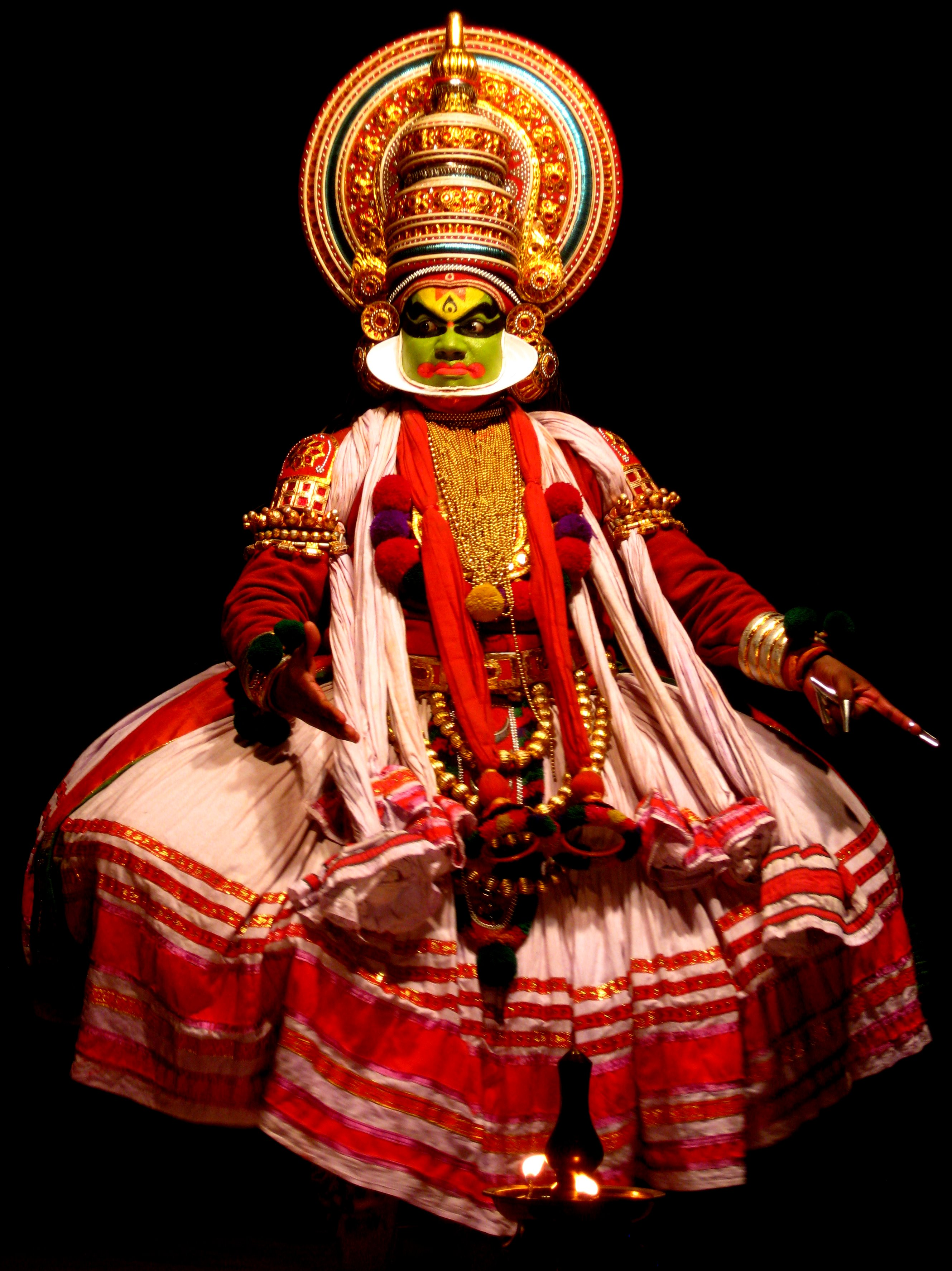 A Kathakali performer in the virtuous pachcha (green) role at Kochi, India.